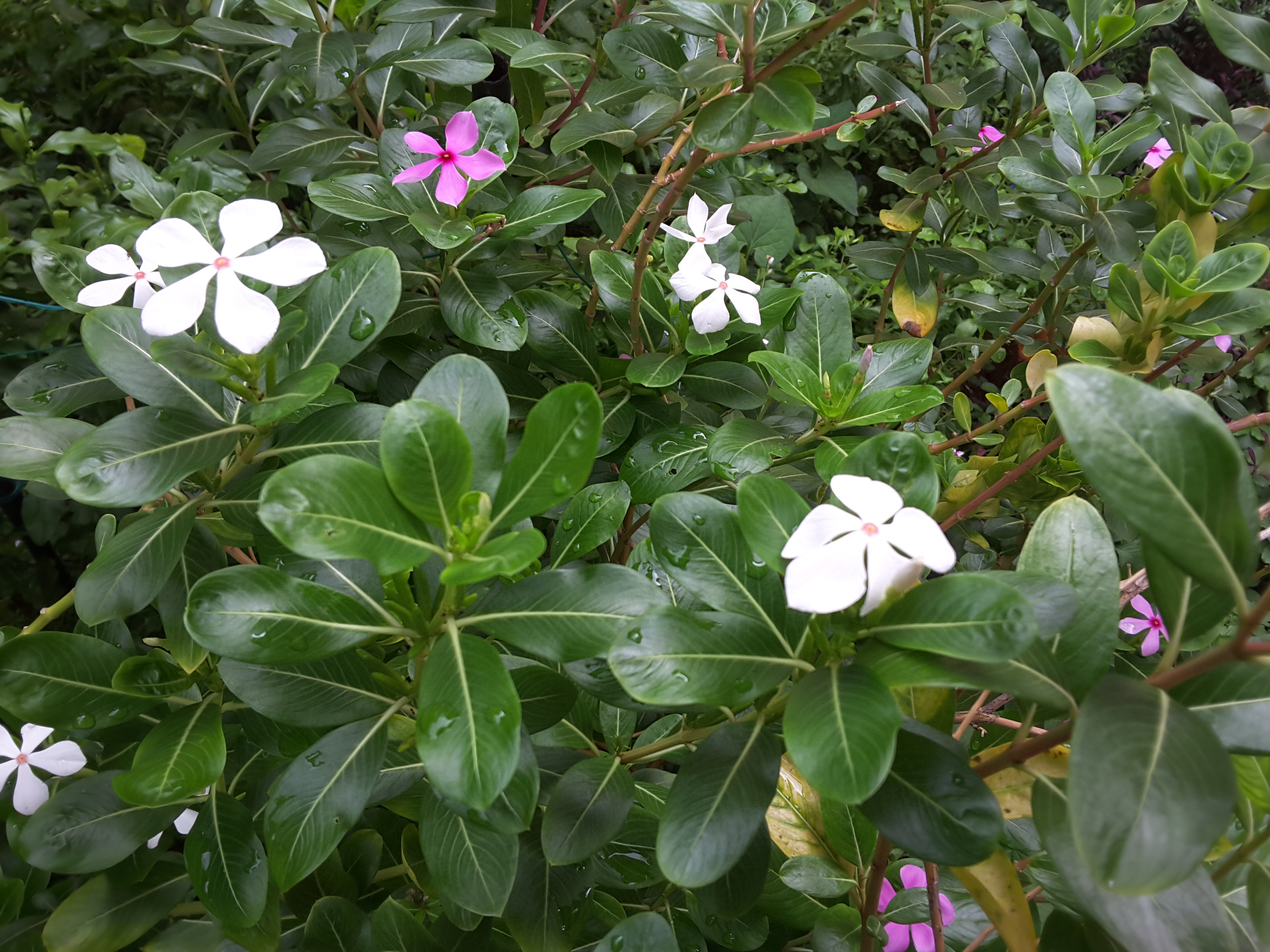 Growing periwinkles in Singapore.